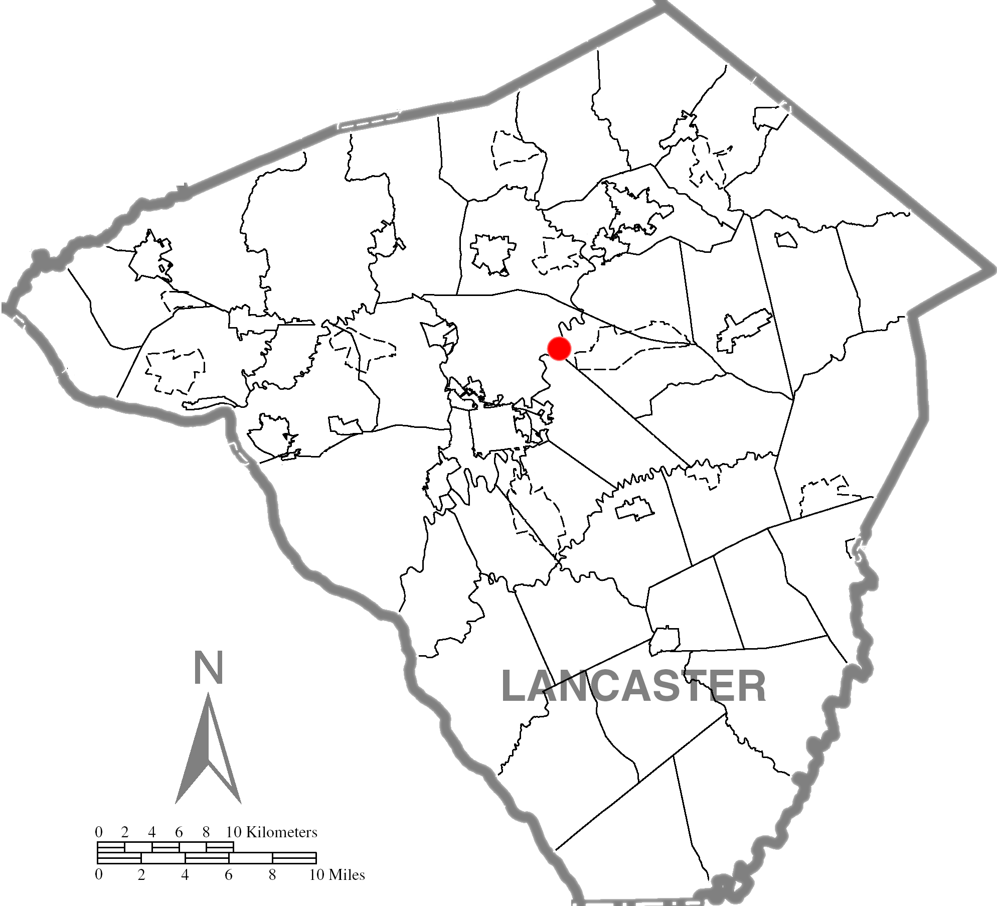 Lancaster County dot map of the Hunsecker's Mill Covered.